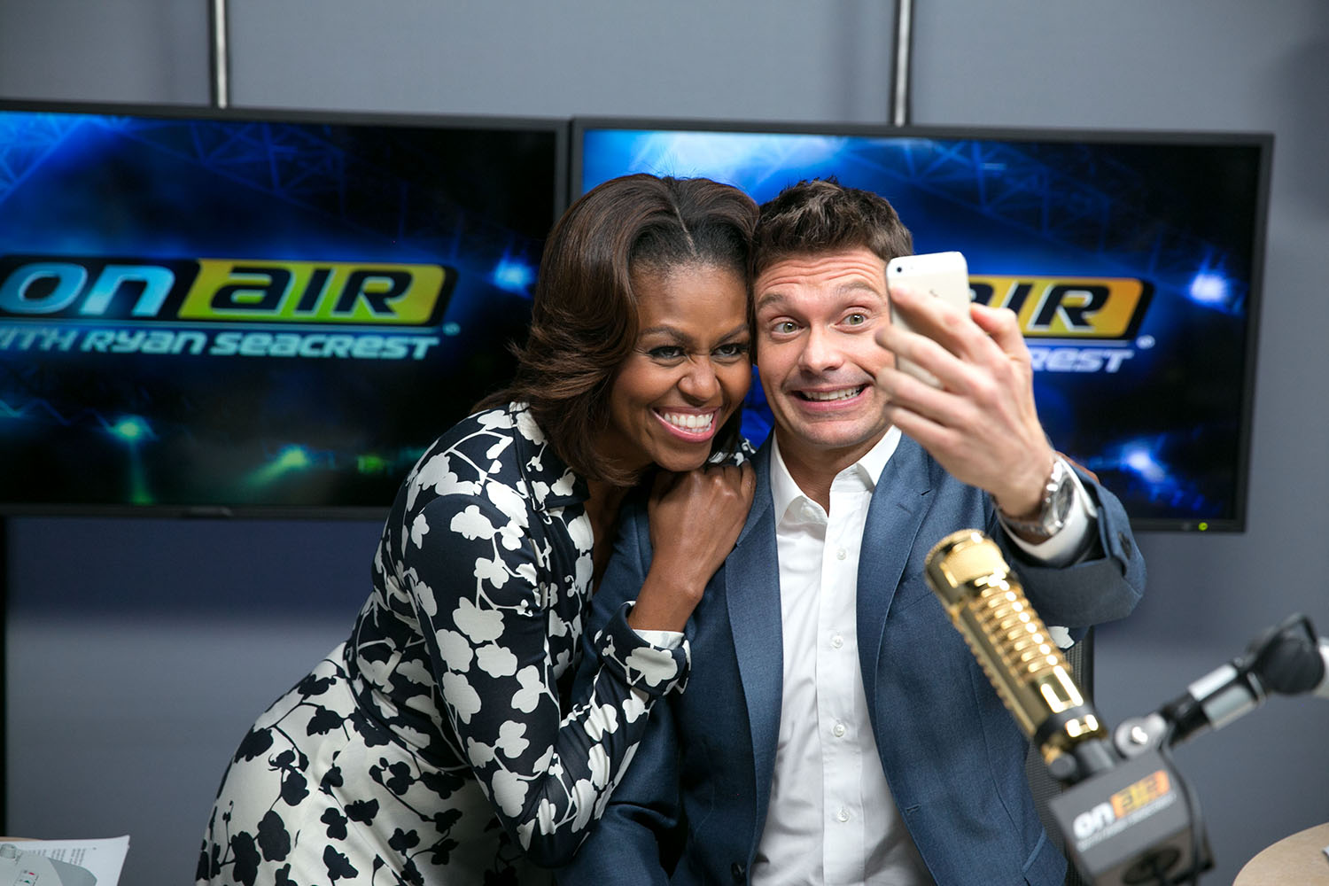 First Lady Michelle Obama poses for a selfie with Ryan Seacrest after taping a "Let's Move!" interview at E! Networks in Los Angeles, Calif., Jan. 29, 2014. (Official White House Photo by Lawrence Jackson) This official White House photograph is in the public domain from a copyright perspective, so while restrictions such as personality or privacy rights may apply, in general, manipulations are allowed.